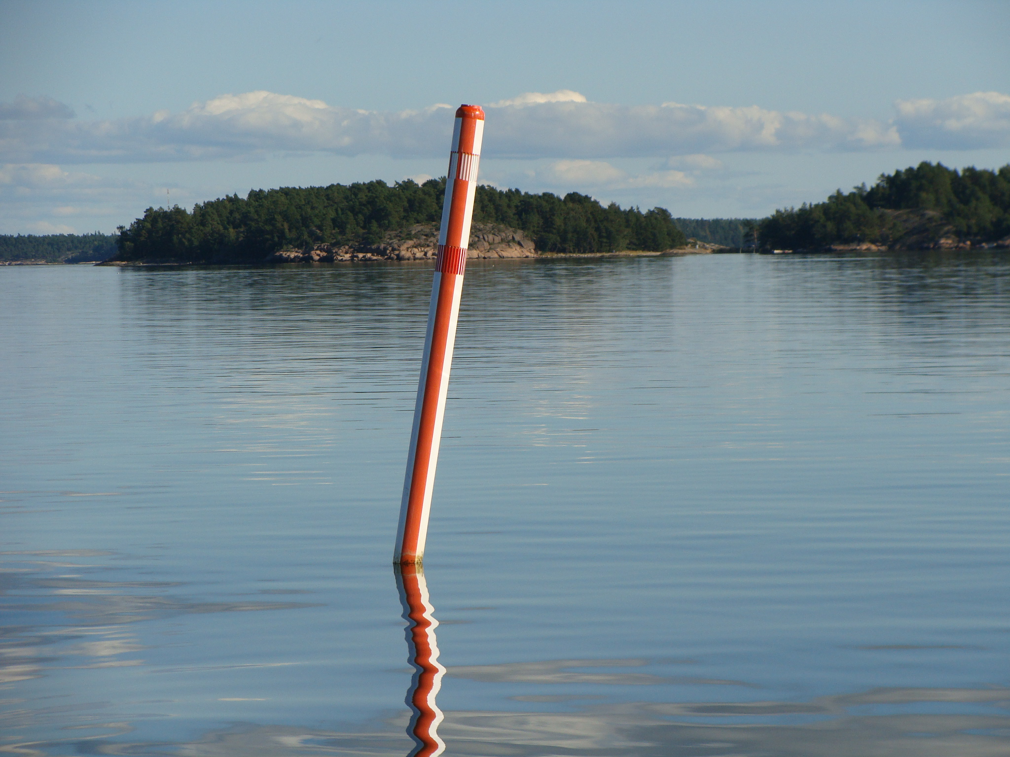 Safe water spar buoy north of Vattkast island in the Central Archipelago Sea in Finland.